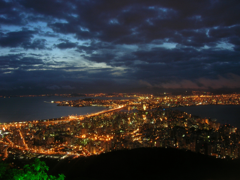 Downtown Florianópolis at night. Santa Catarina state, Brazil.